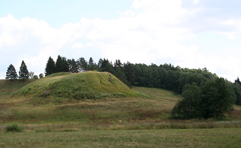 Bubiai hill fort, Šiauliai district, Lithuania